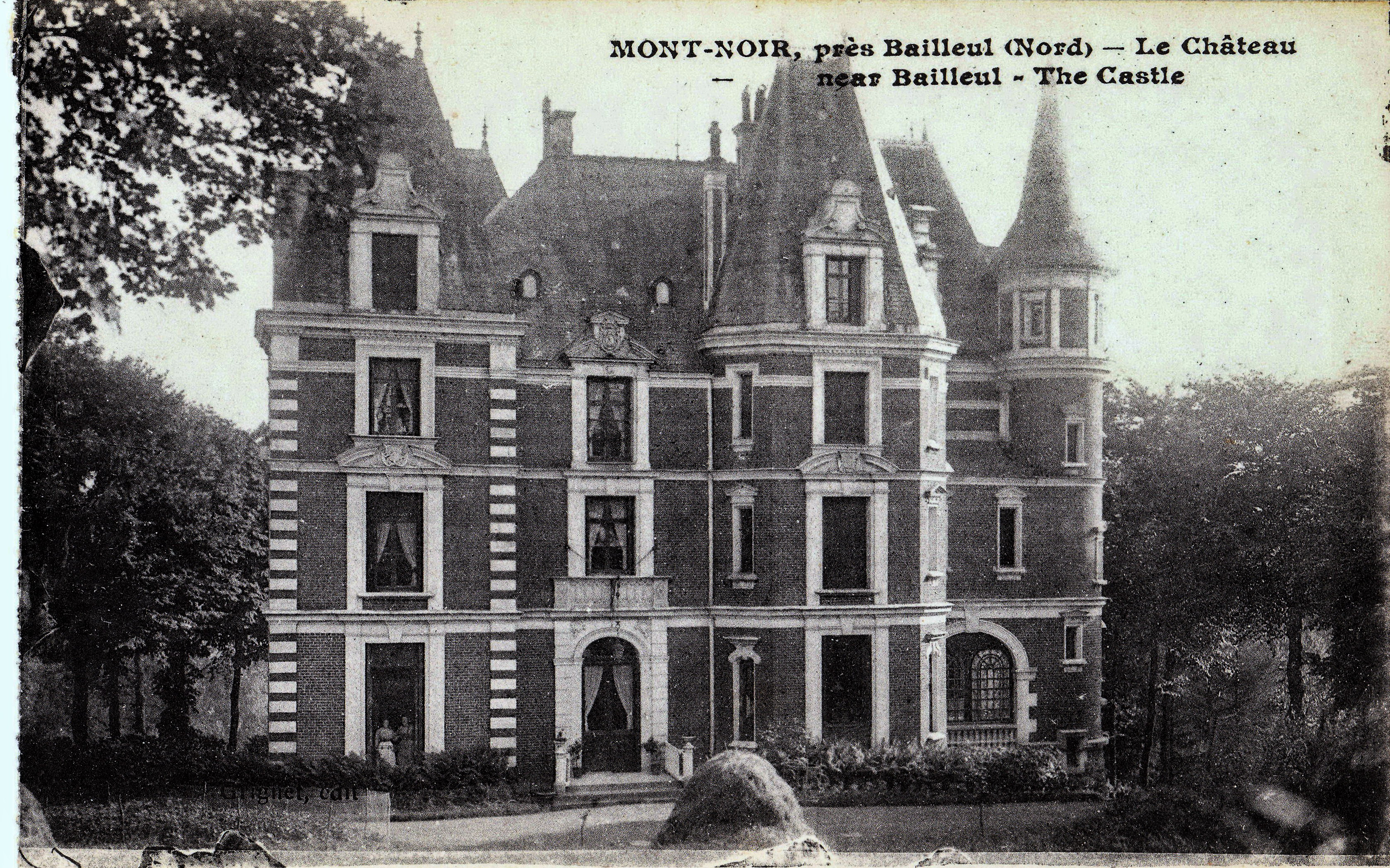 Le Mont Noir (The Black Mount )" - municipality of Saint Jans Cappel - French Flanders . Castle of childhood of the writer Marguerite YOURCENAR . Photo taken before the WWI°